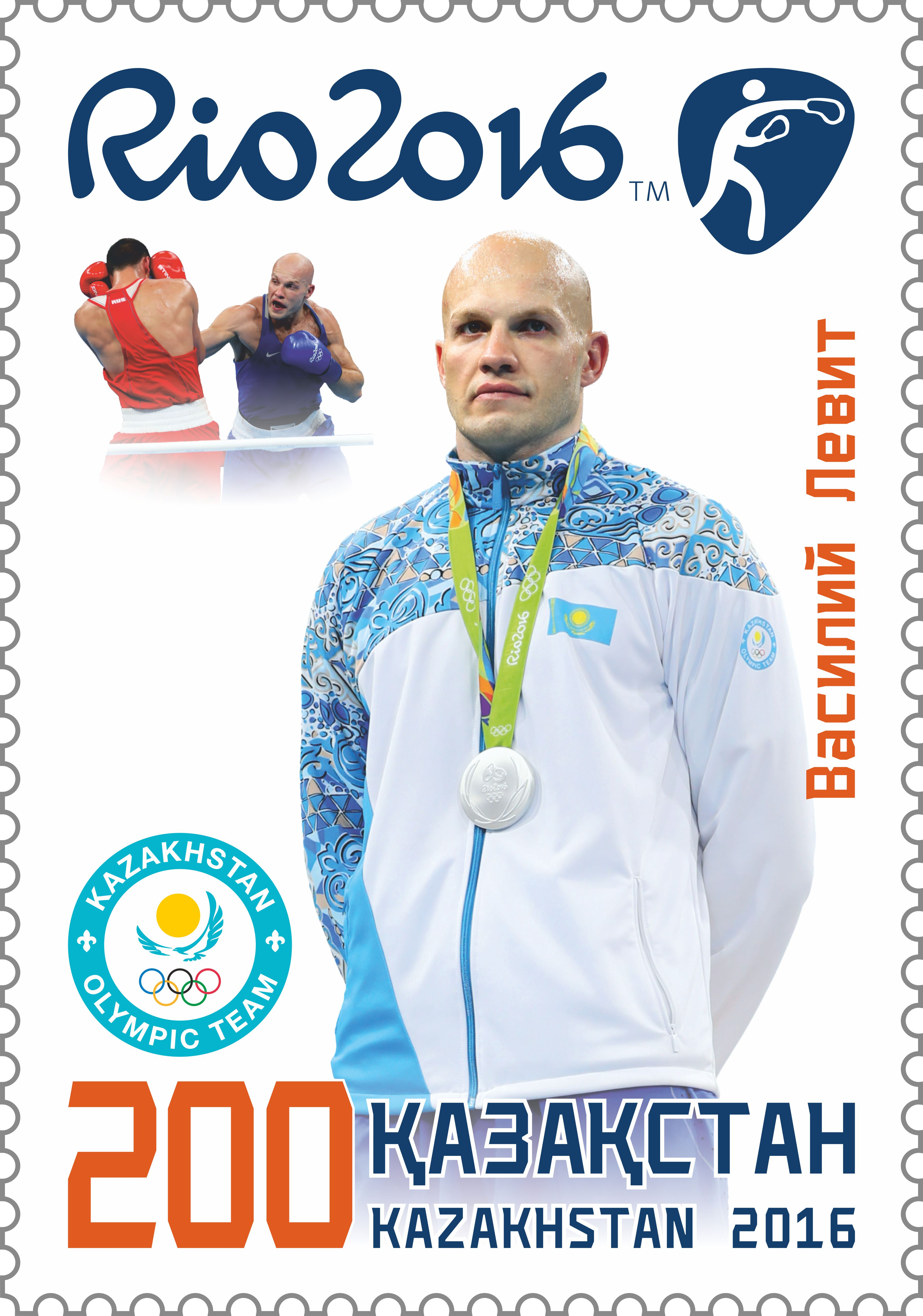 1004-1011. Sports. The XXXI Olympic Games in Rio de Janeiro.